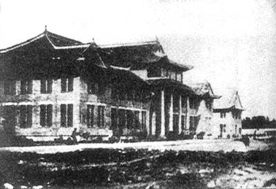 A famous university in south western China 西南聯大。